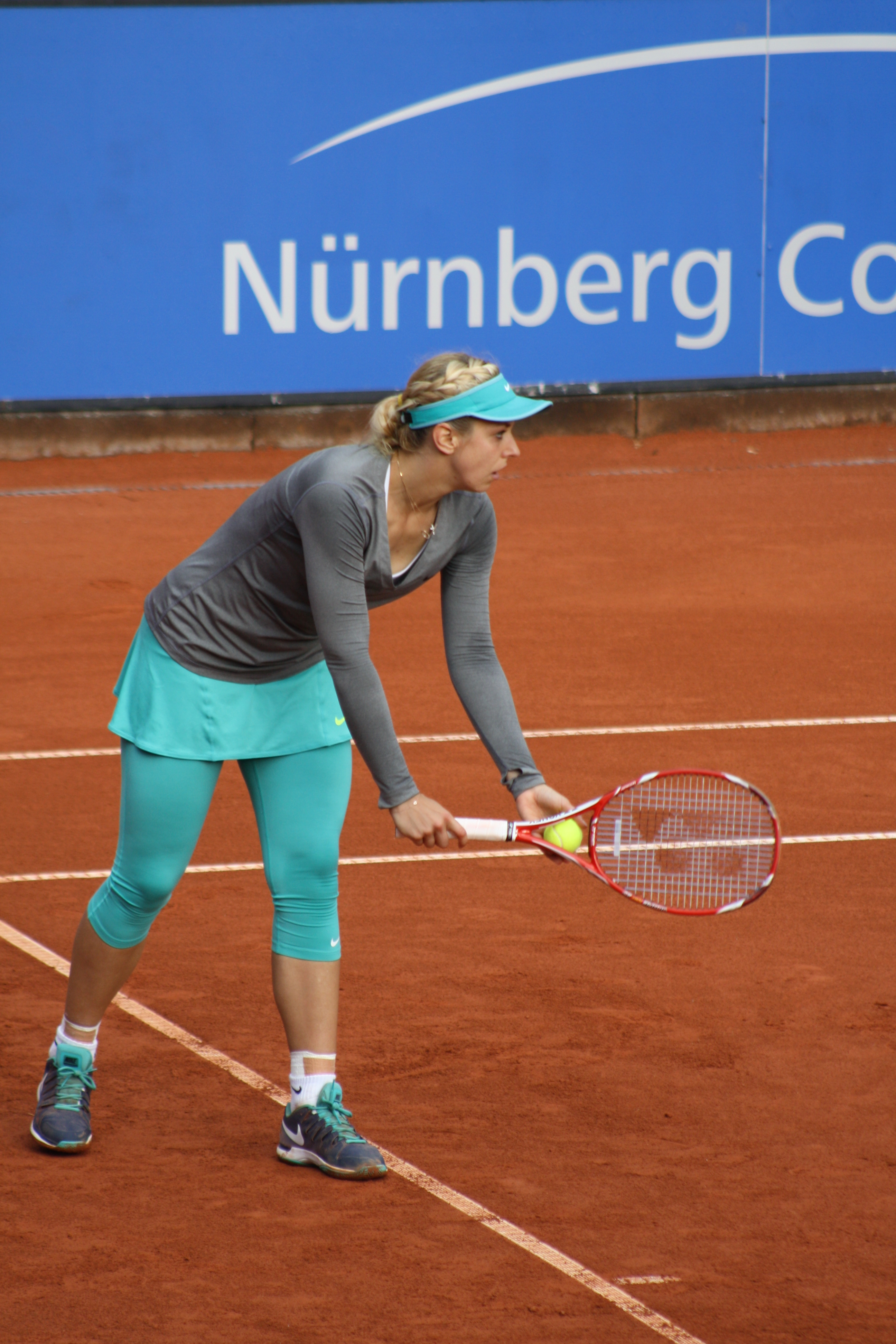 Sabine Lisicki, May 2015